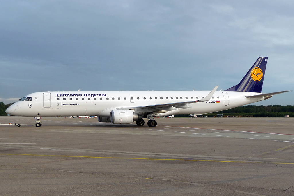 An Embraer jet aircraft in "Lufthansa Regional" colours is being pushed-back at Cologne-Bonn Airport.